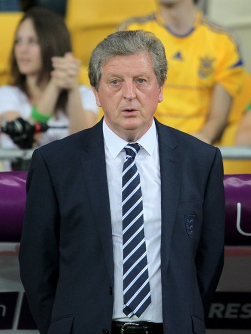 Roy Hodgson at Euro 2012 match against Italy